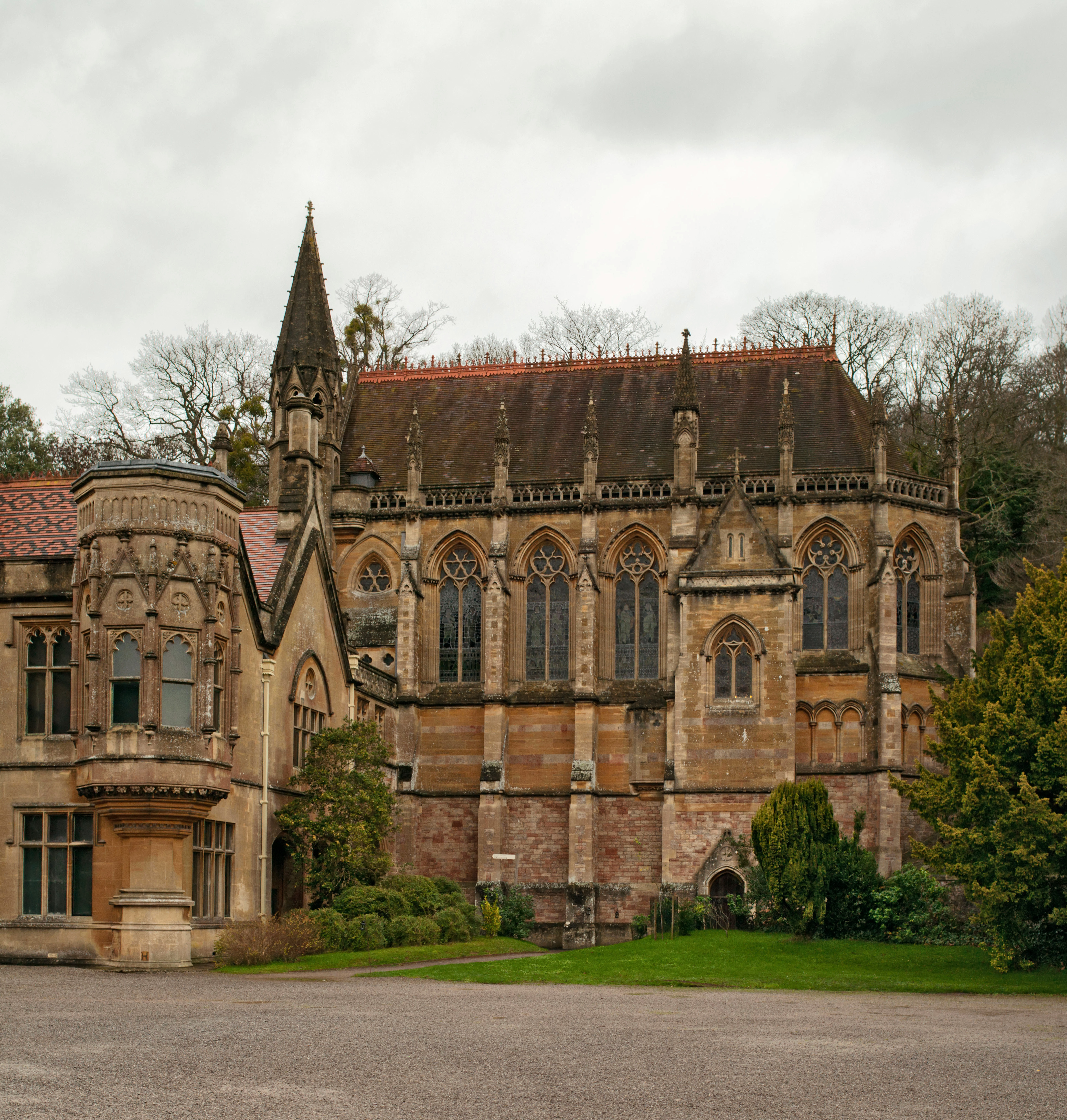 Tyntesfield Chapel - South Side